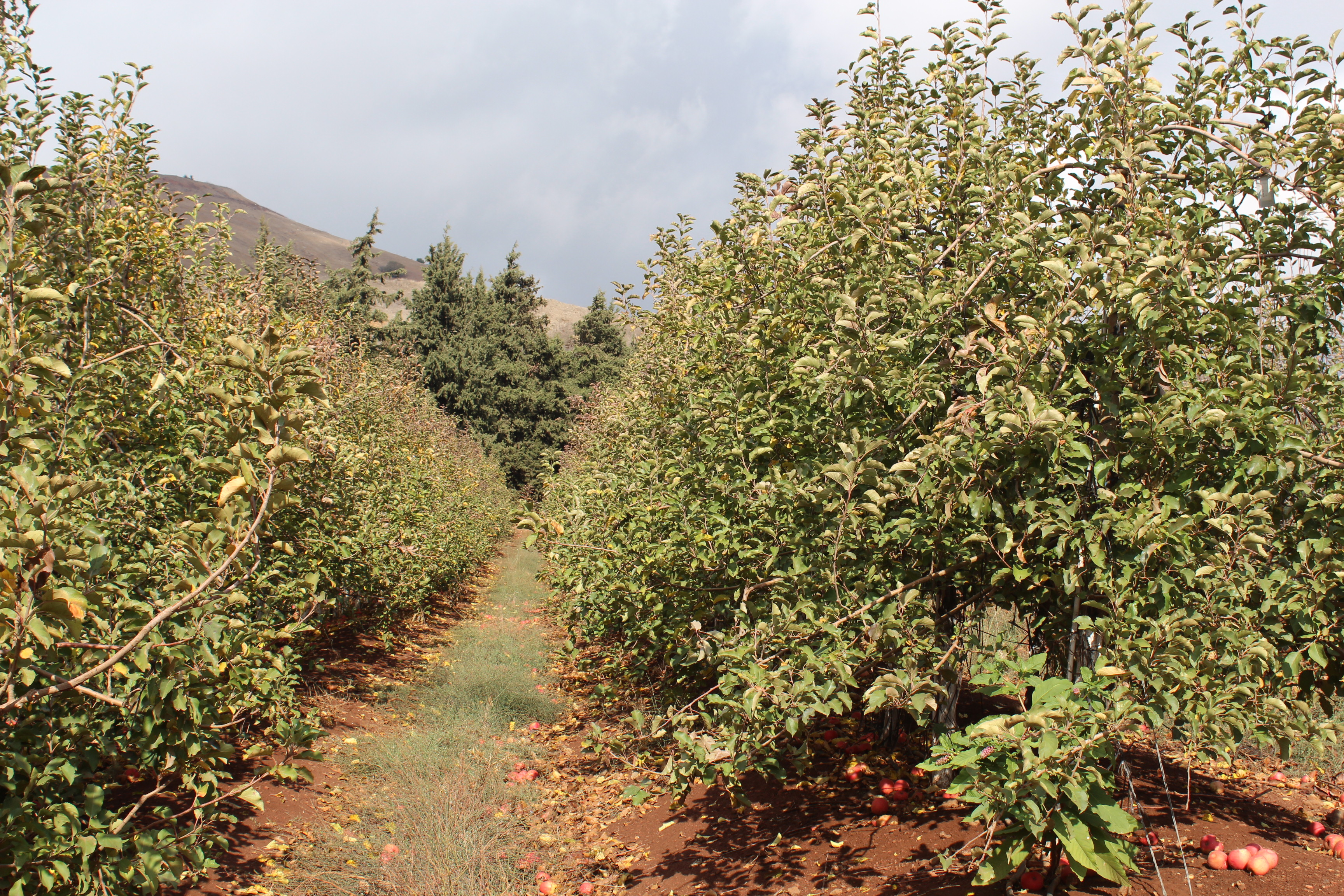 Apple orchards (Pink Lady) and vinyards of Kibutz El-Rom at Mount Avital Caldera, Golan Hights, Israel This image was taken as part of the Elef Millim project trip to the Northern Golan Hights, in Israel which was held on Friday, 6th December 2013. To view all images uploaded as part of the Elef Millim Project